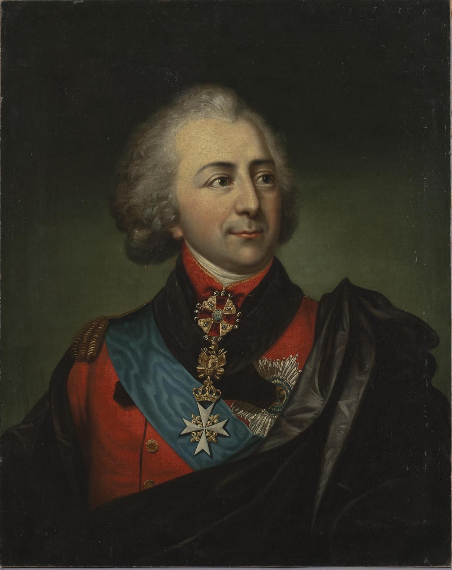 Portrait of Count Ivan Kutaisov (1759 - 1834)